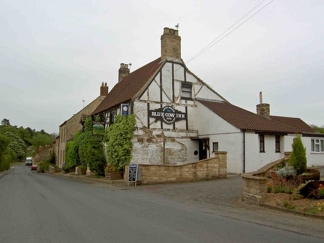 The unusually named Blue Cow Inn High Street South Witham.